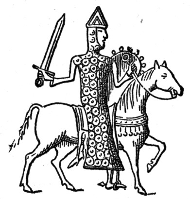 Guy II de Laval